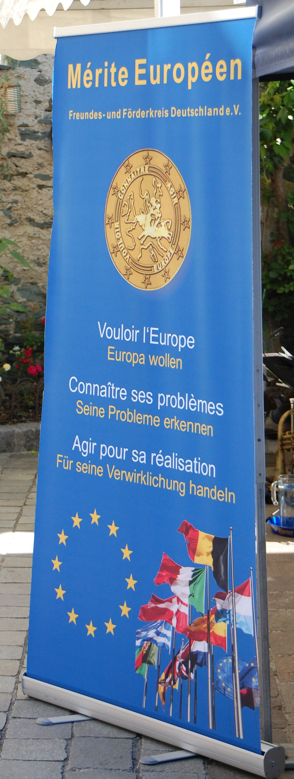 Rollup of the Fondation du Mérite Européen on the event "Europa Forum" at Forchtenstein Castle in Neumarkt, Styria from 15 to 17 July 2017.